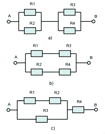 Assorted Resitive Networks